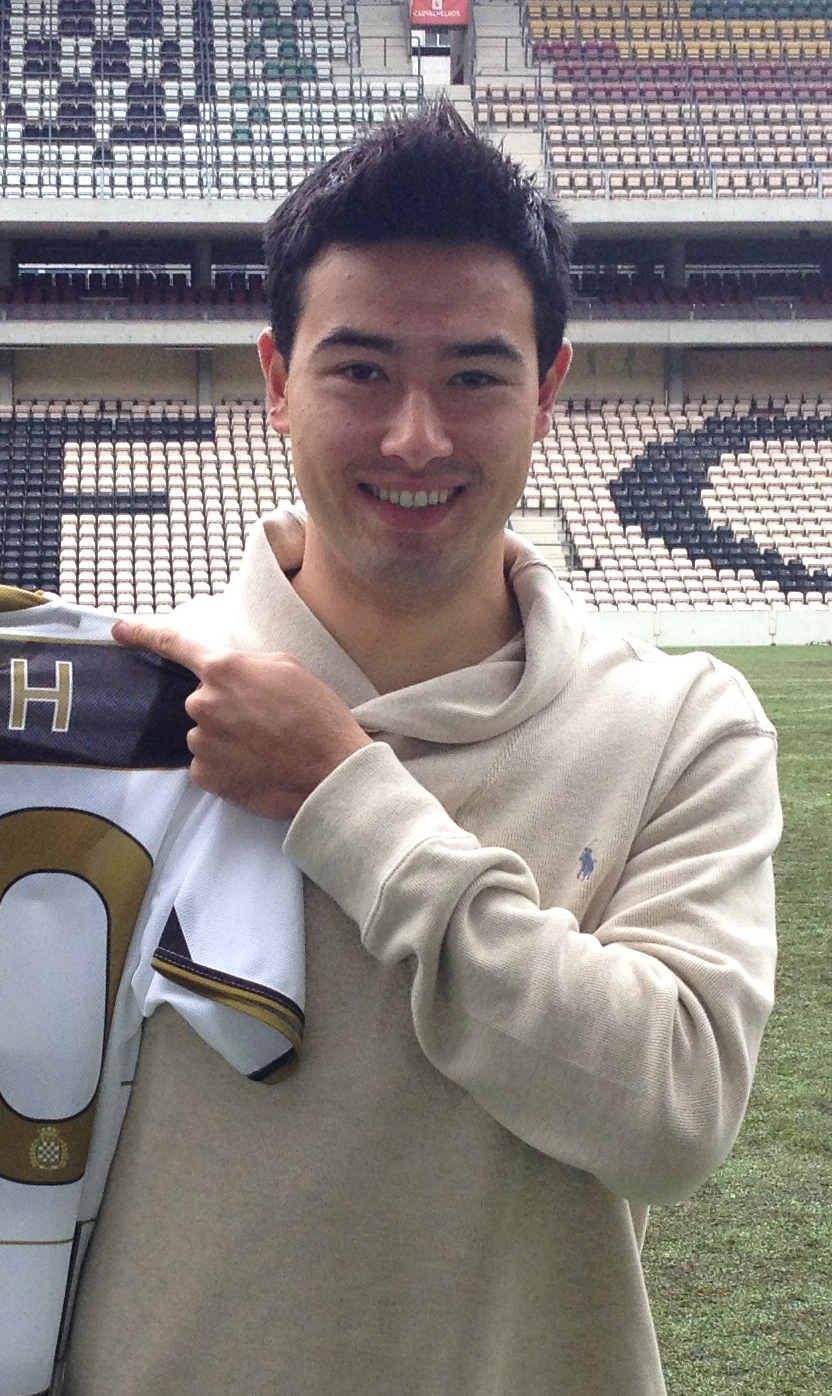 Footballer Ryan Hirooka posing with a Boavista FC shirt after signing for the club.